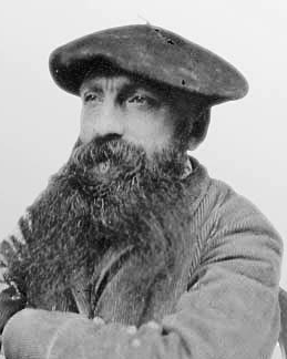 Cropped and flipped version of Image:Netsurf11 - Rodin.jpg